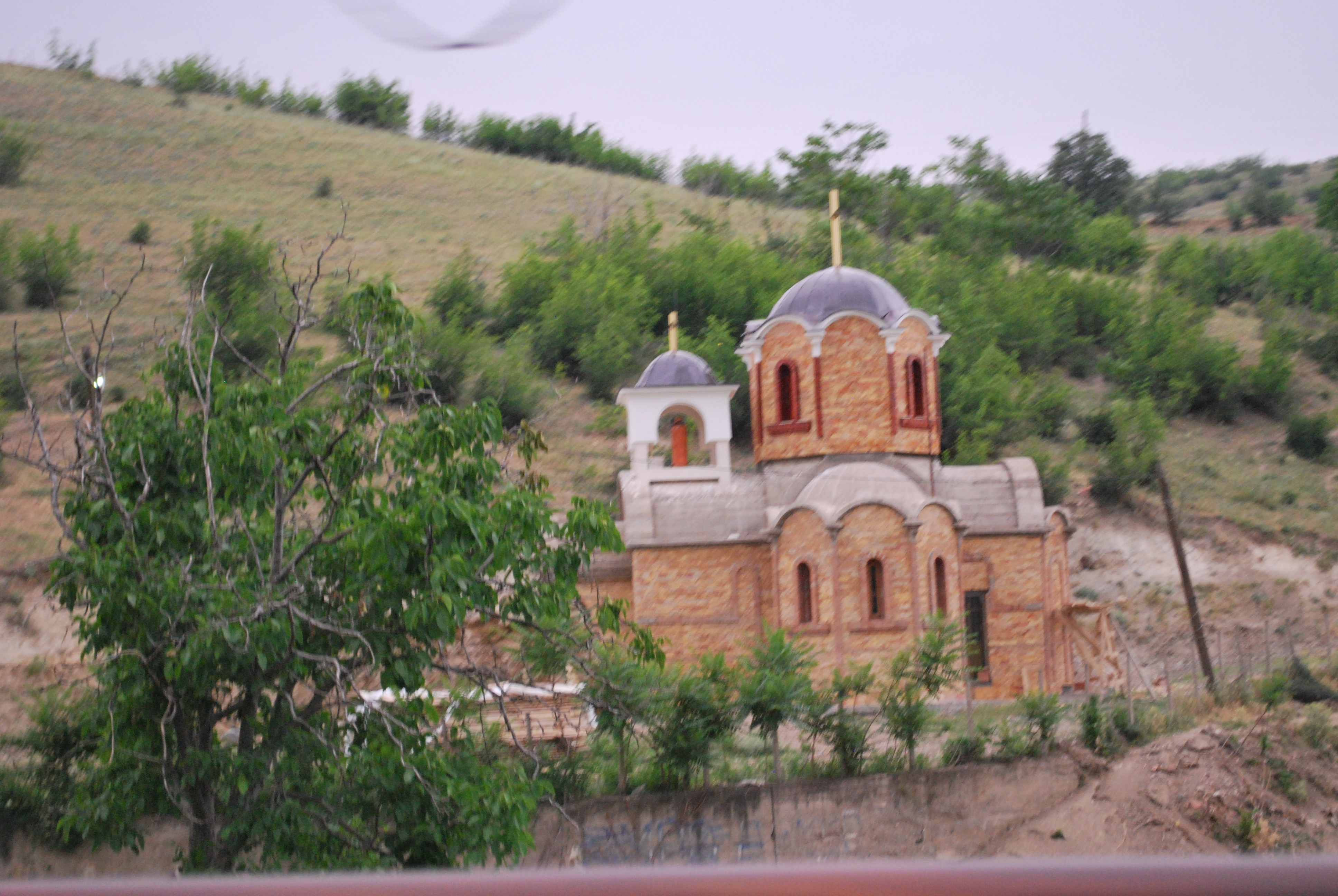 Church of the Ascension of Jesus in Pčinja, Macedonia